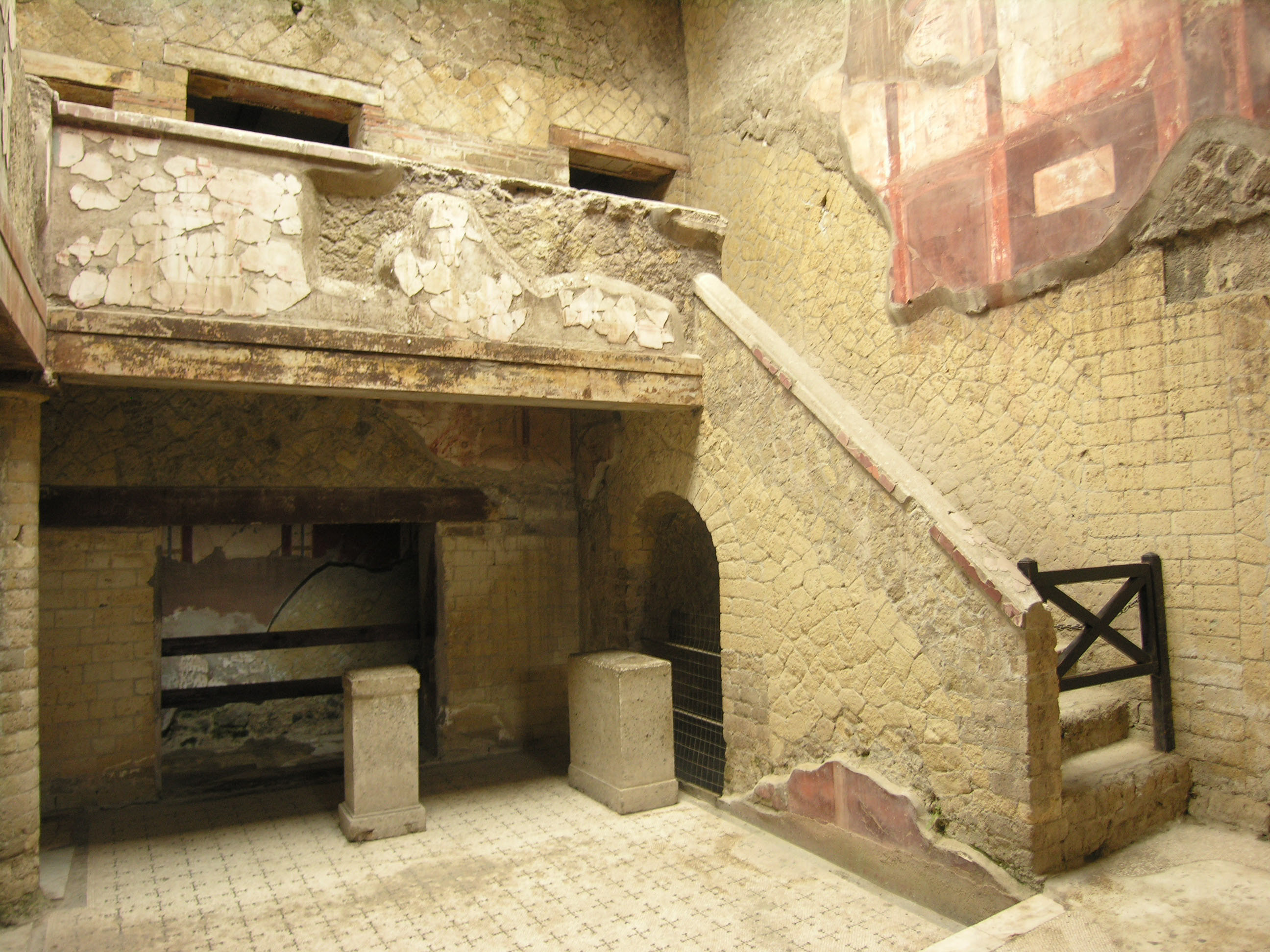 House of the Beautiful Courtyard in Herculaneum.